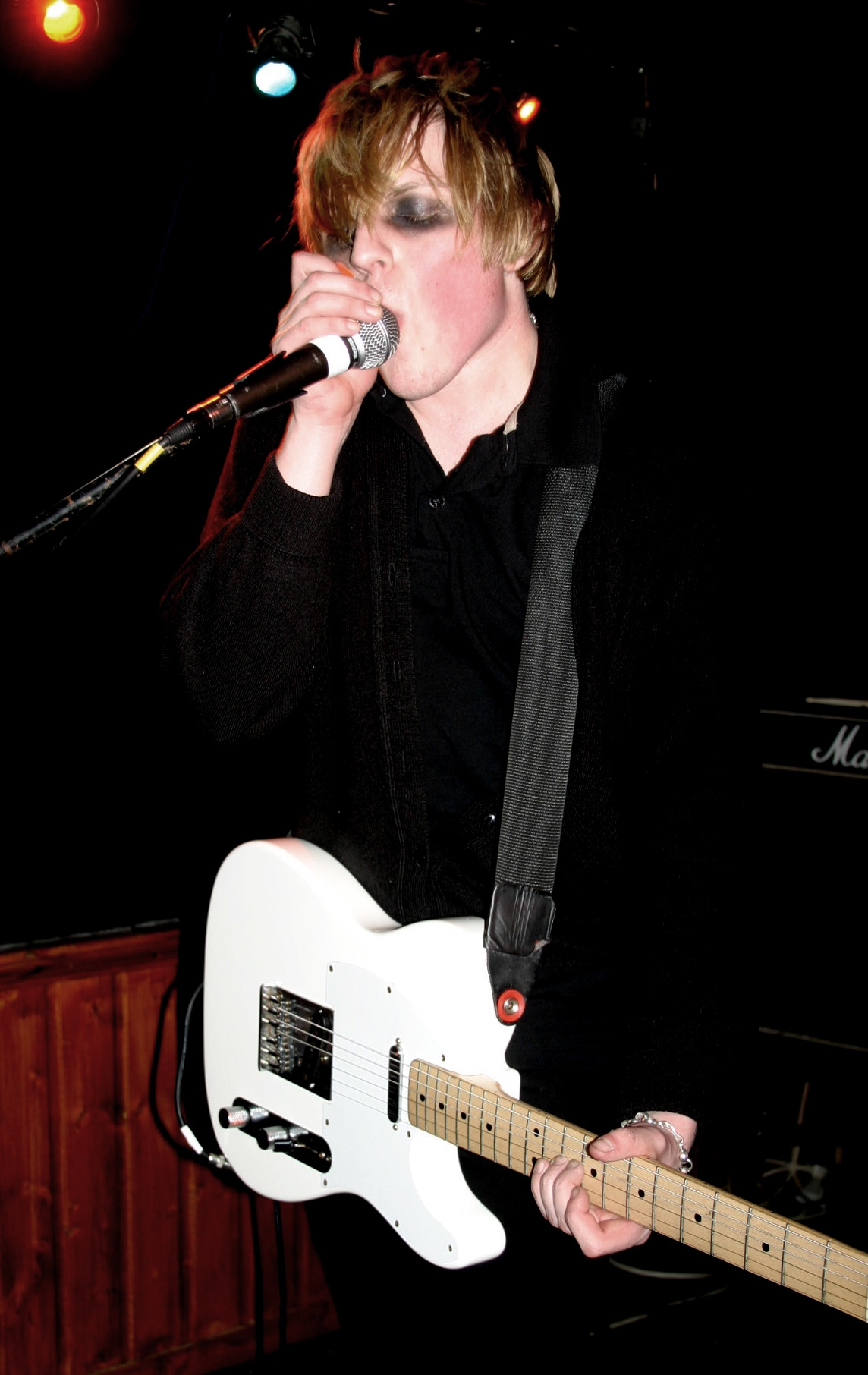 Neils Children in concert